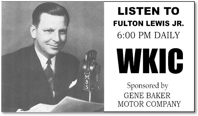 Low-resolution reproduction of newspaper advertisement for the WKIC–Hazard, Kentucky, broadcast of the nationally distributed radio program of Fulton Lewis Jr., ca. 1940s–1950s